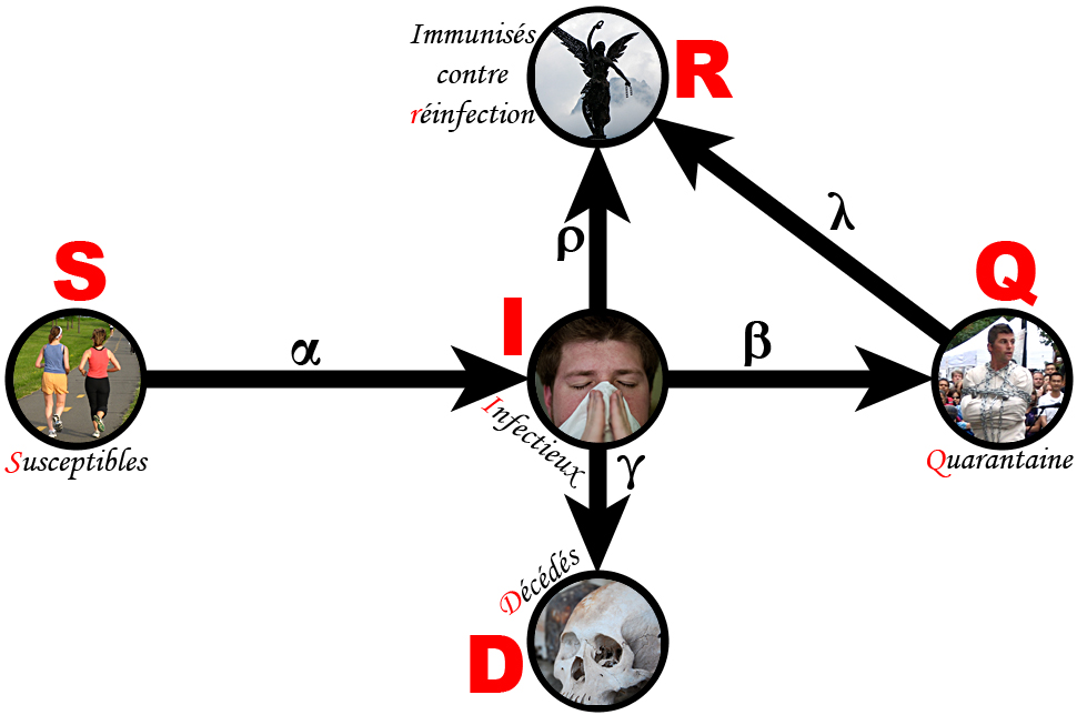 Example of a compartmental model in epidemiology.